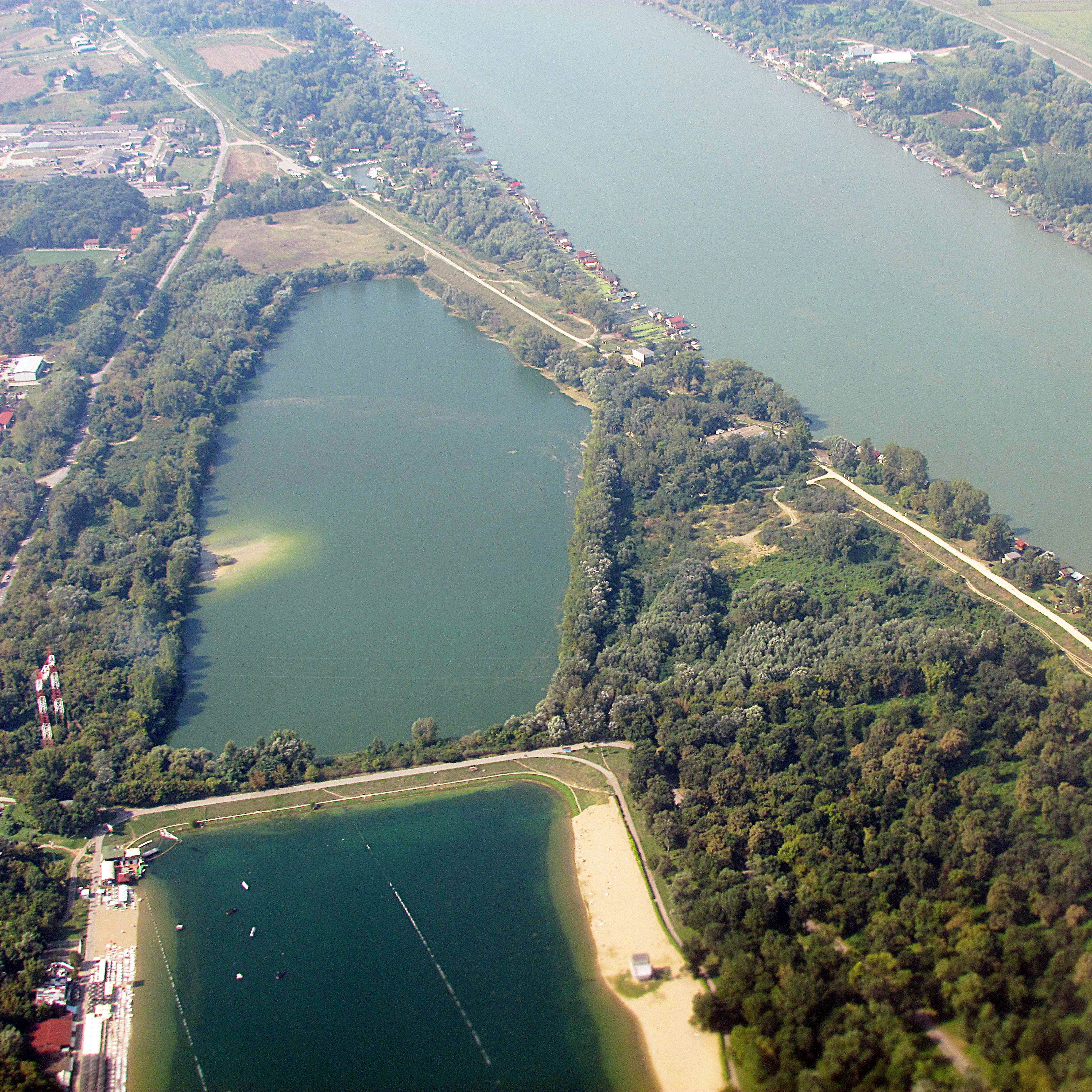 Ada Ciganlija, a river island in Belgrade